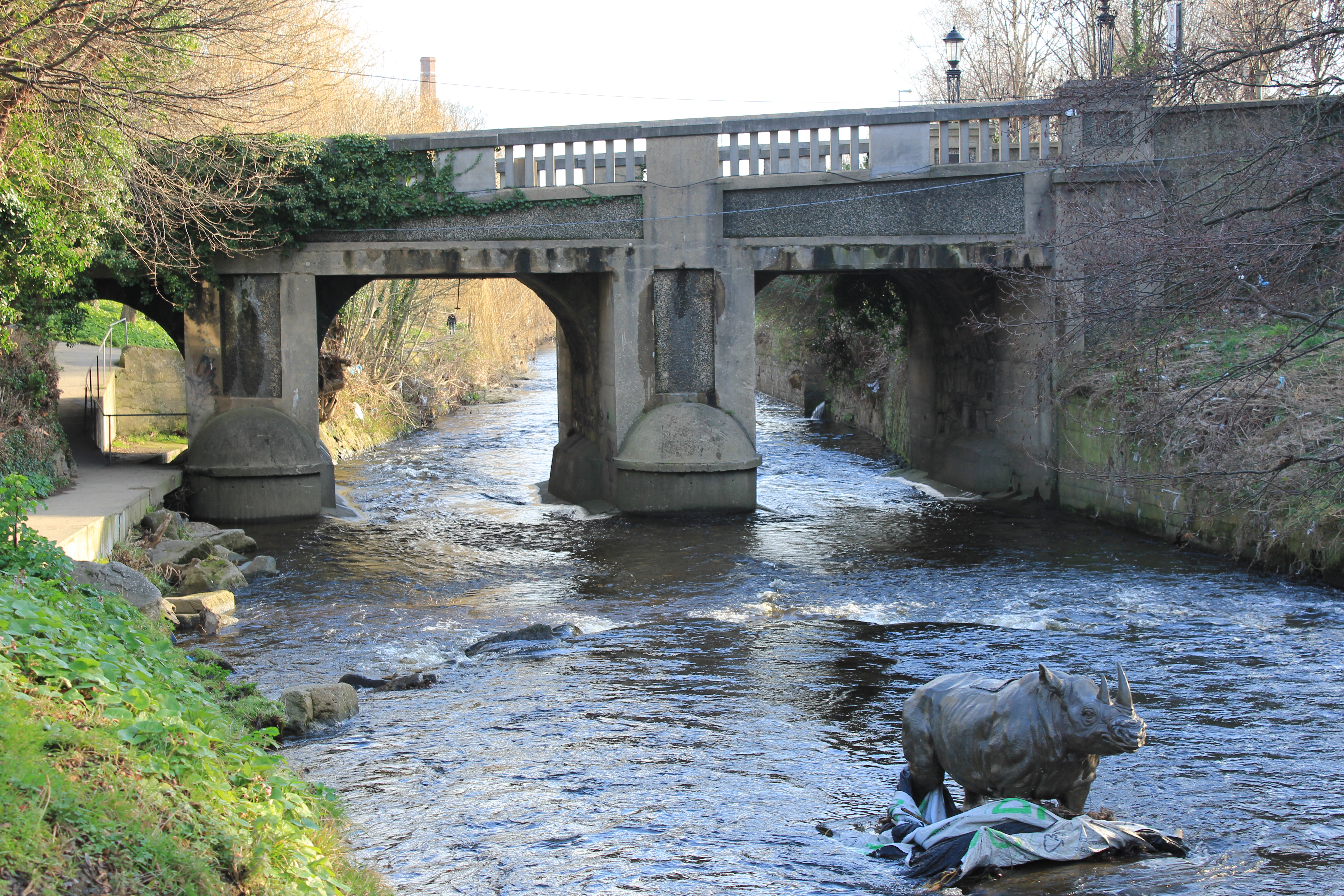 Classon's Bridge, beside the Dropping Well pub in Milltown and Dartry, Dublin.